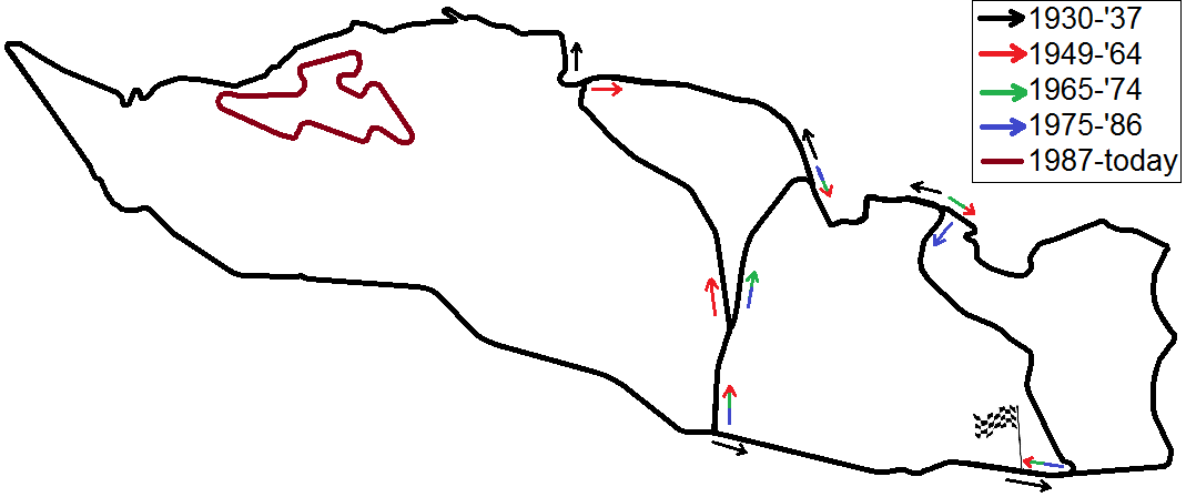 This file shows a diagram that combines all former and current layouts of the Marasyk Circuit, a.k.a. Brno Circuit, from 1930 up to today. Arrows show which layout used which roads.